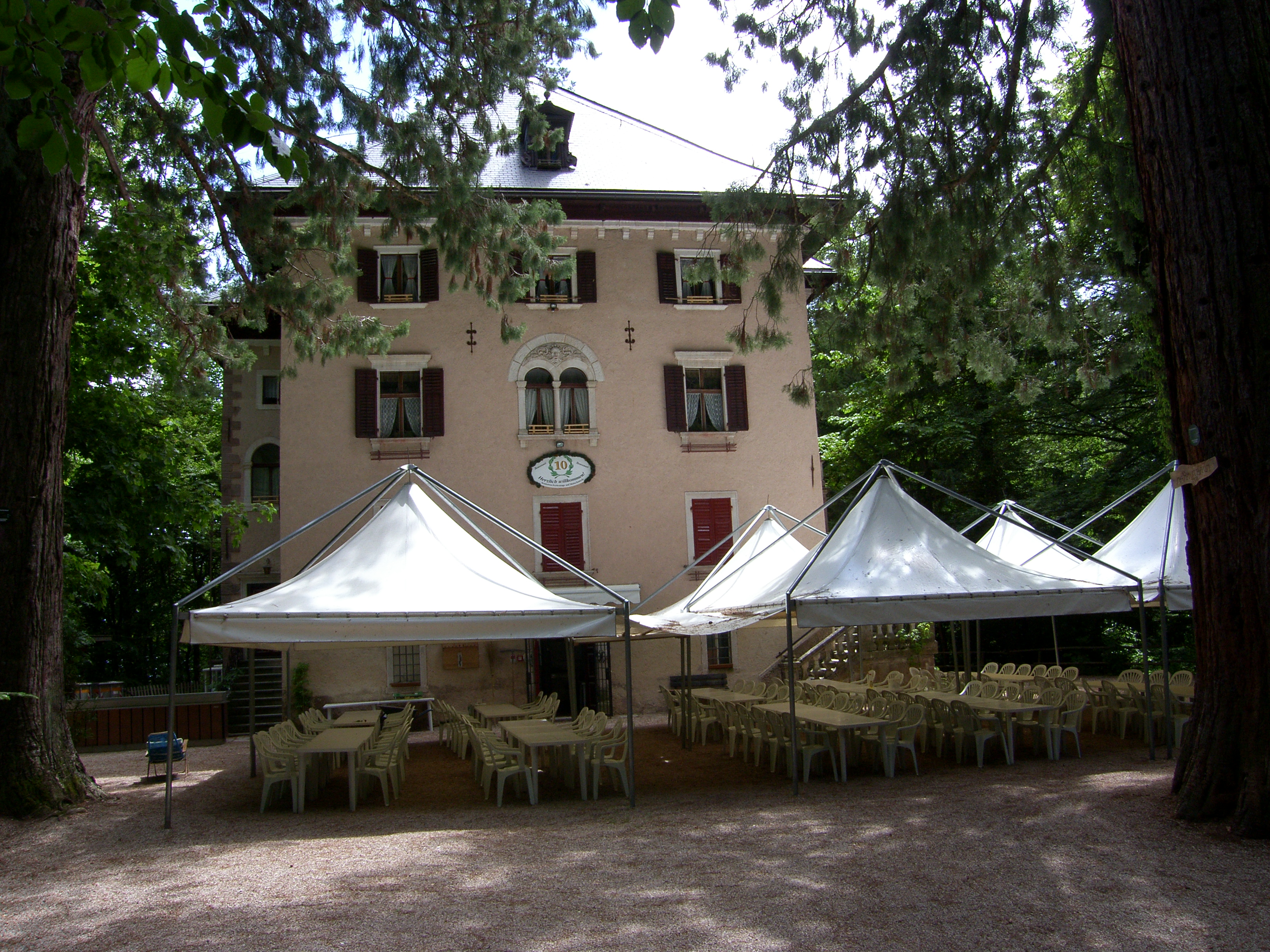 Matschatsch castle, Eppan (it: Appiano), Sout Tyrol, Italy , front view